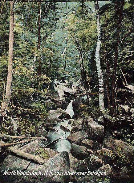 Lost River near entrance, North Woodstock, New Hampshire